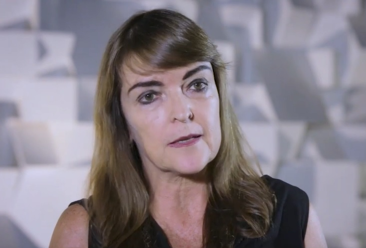 Brazilian Ambassador Gisela Padovan